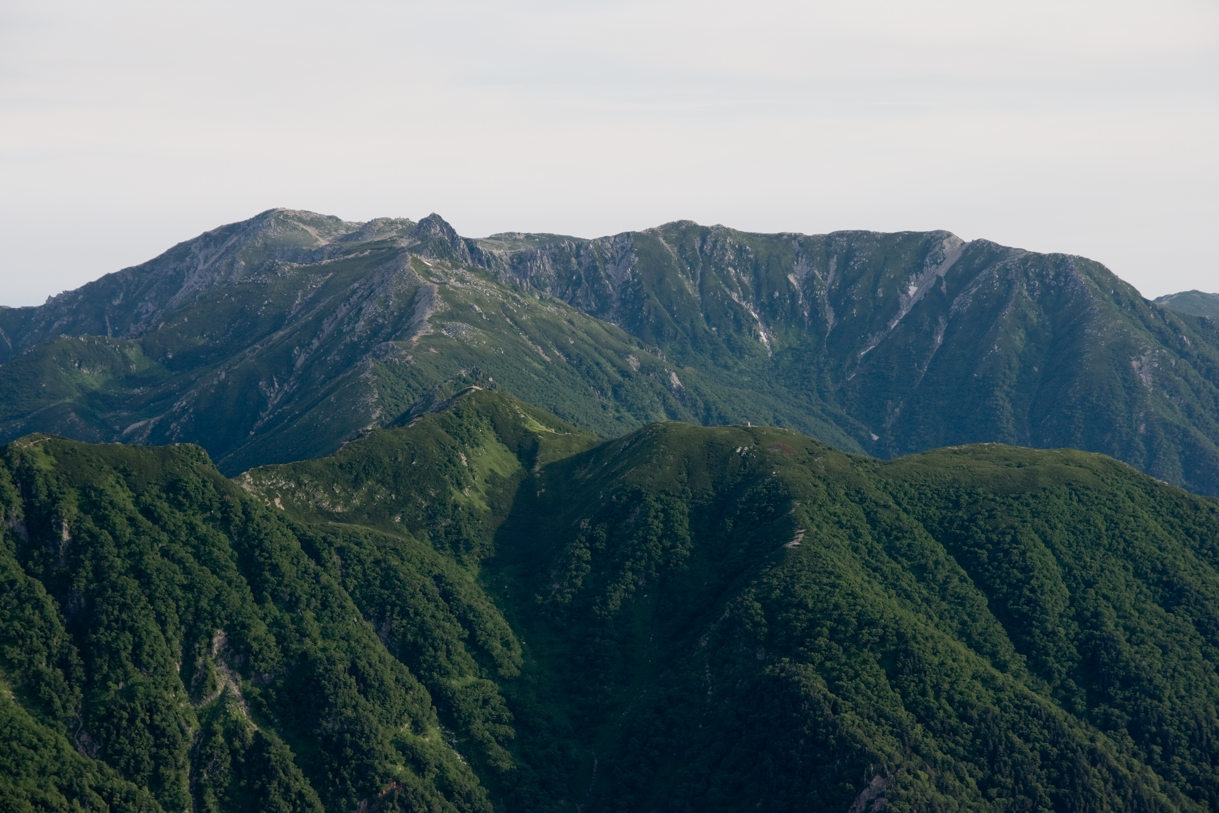 Mt.Kisokomagatake from Mt.Utsugidake, Nagano, Japan.